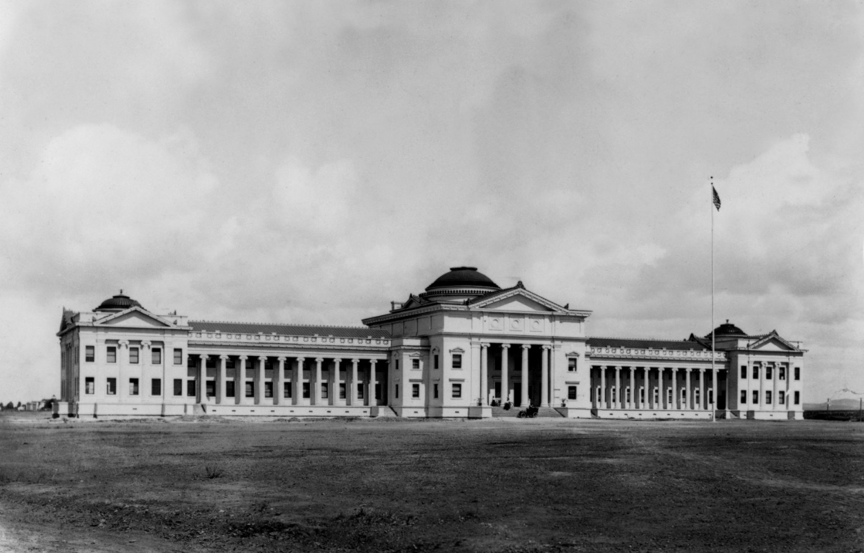 San Diego Normal School in 1904. The school would later expand and change names several times until deciding on the current name, San Diego State University.